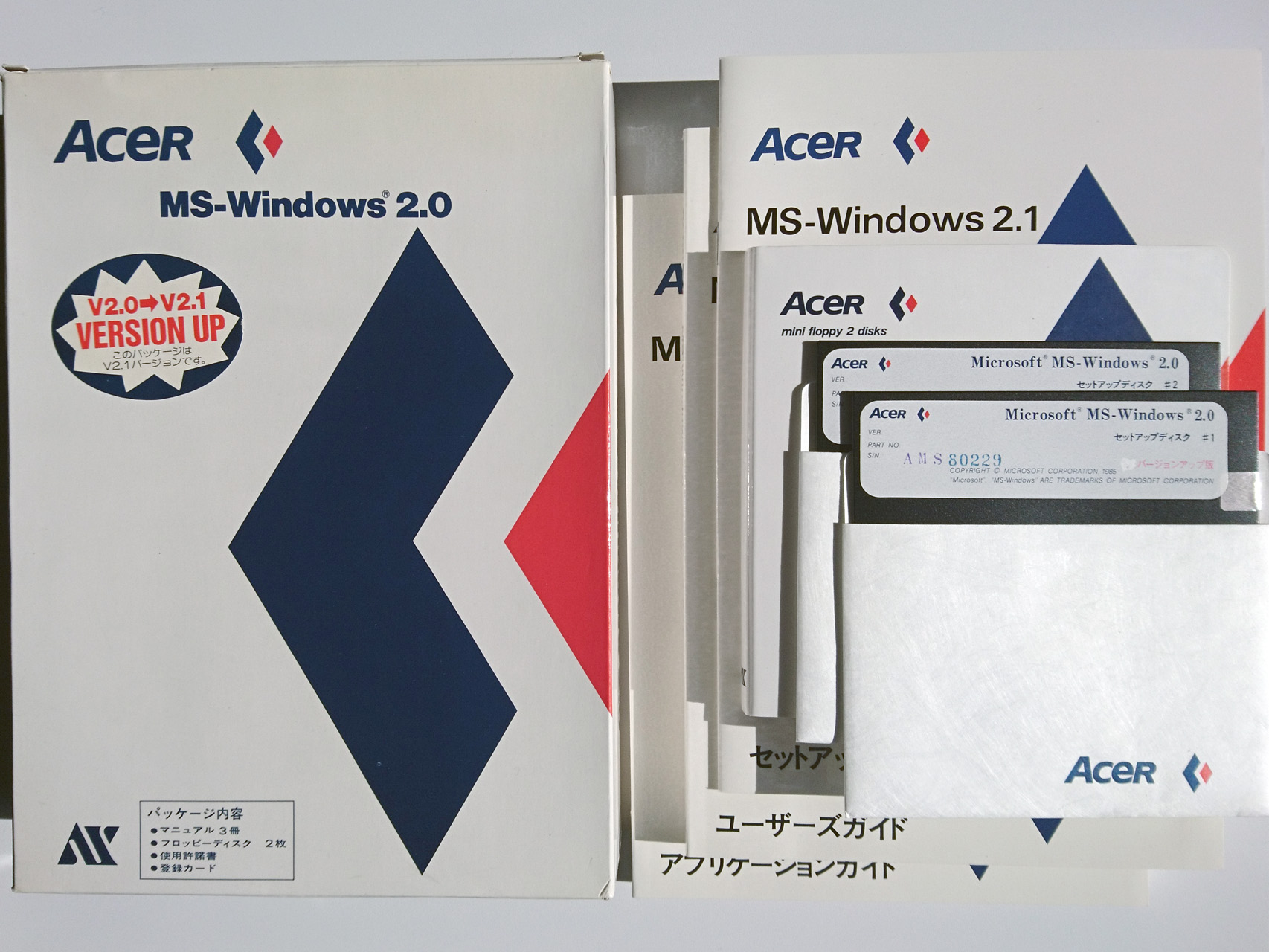 Retailed box and contents of the Japanese version of Microsoft Windows 2.1 (Acer Japan OEM for AX architecture machines).